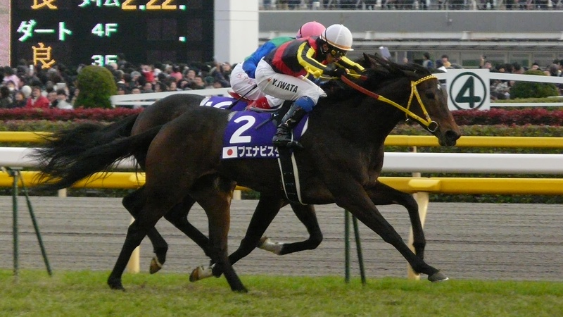 Buena-Vista-horse20111127